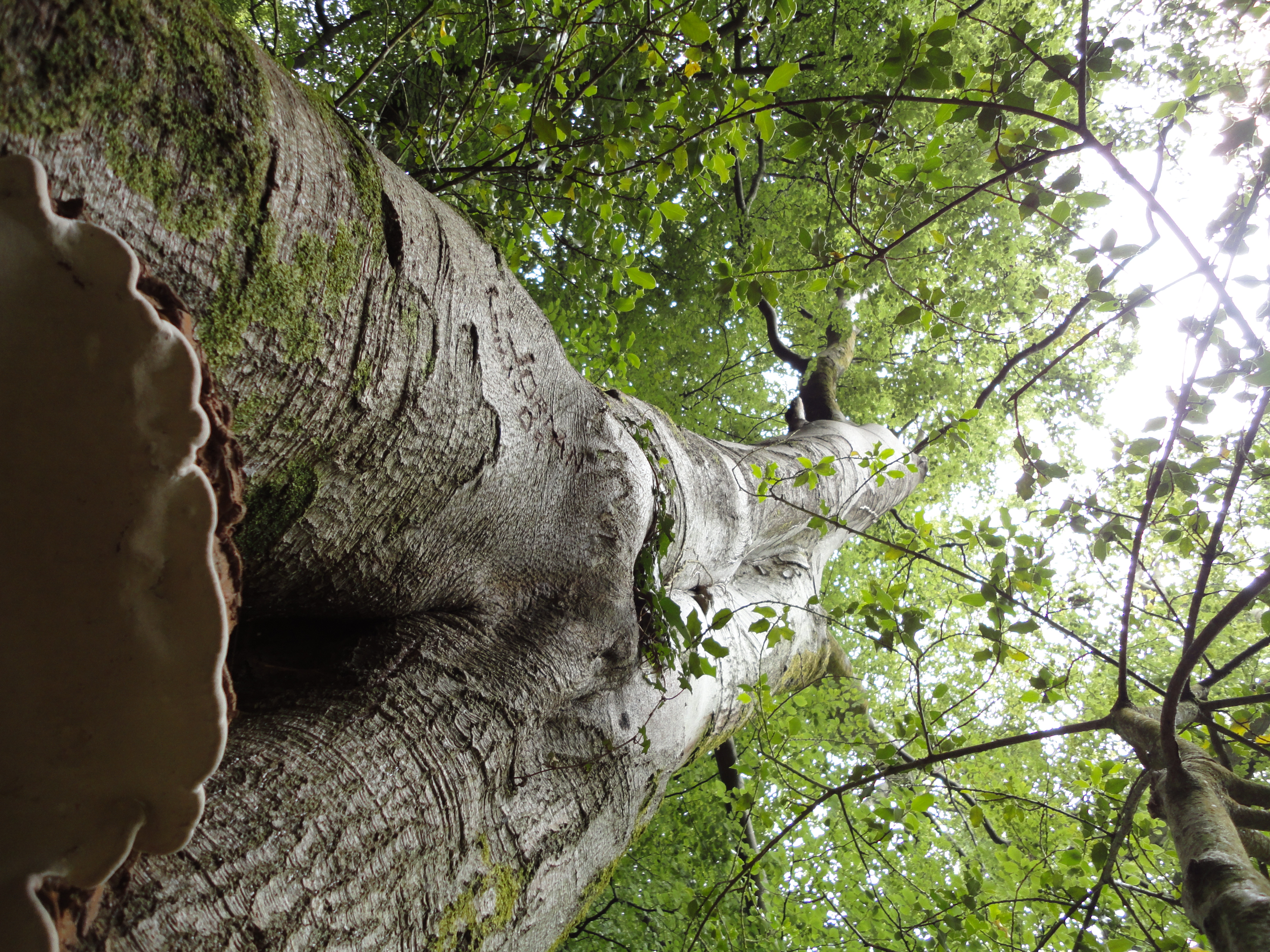 180year old beech tree infected by Ganoderma sp. fungus. Taken at Bryngarw Country Park 2011